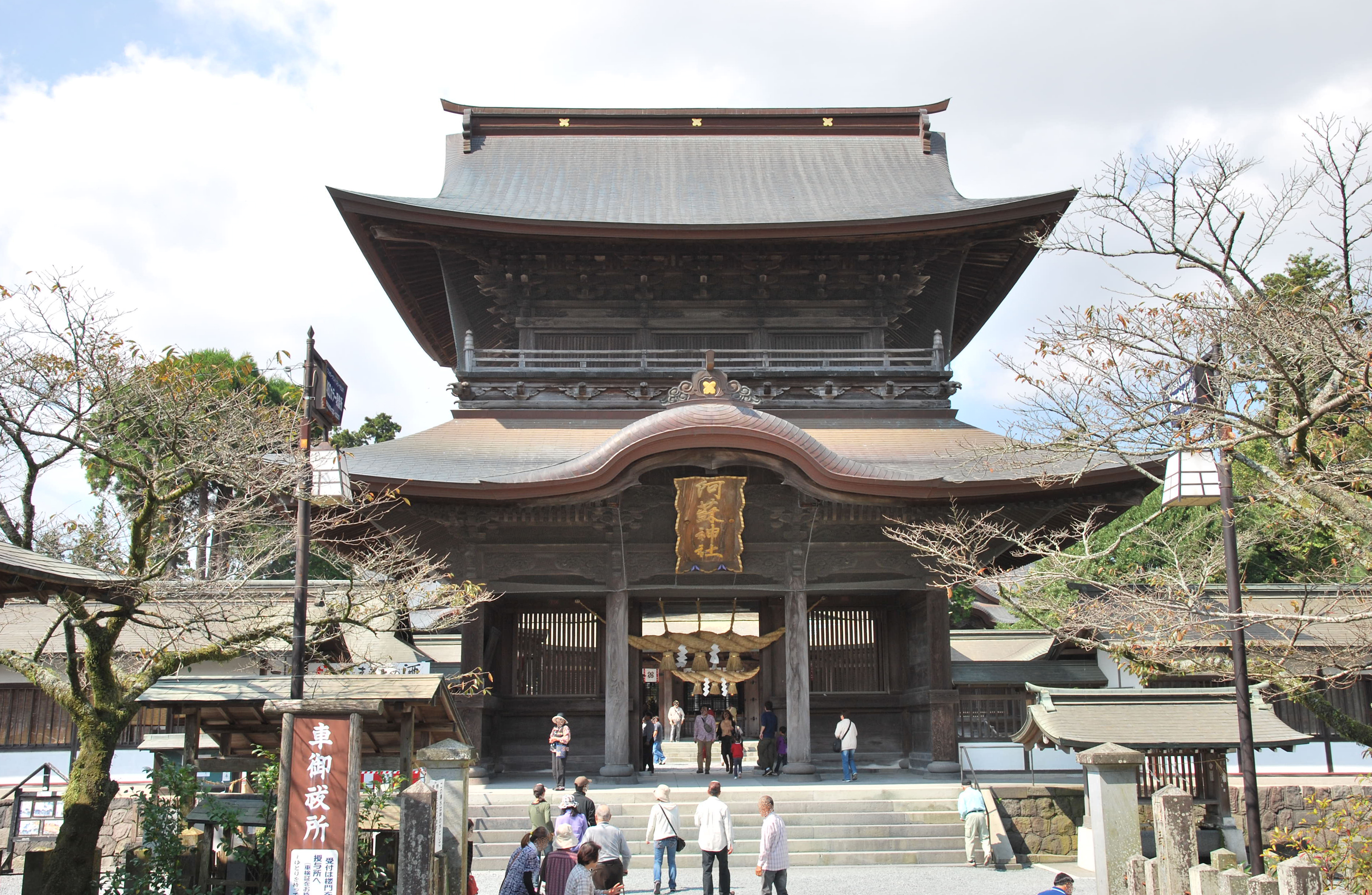 Rōmon gate (Japan's national important cultural property), Aso-jinja